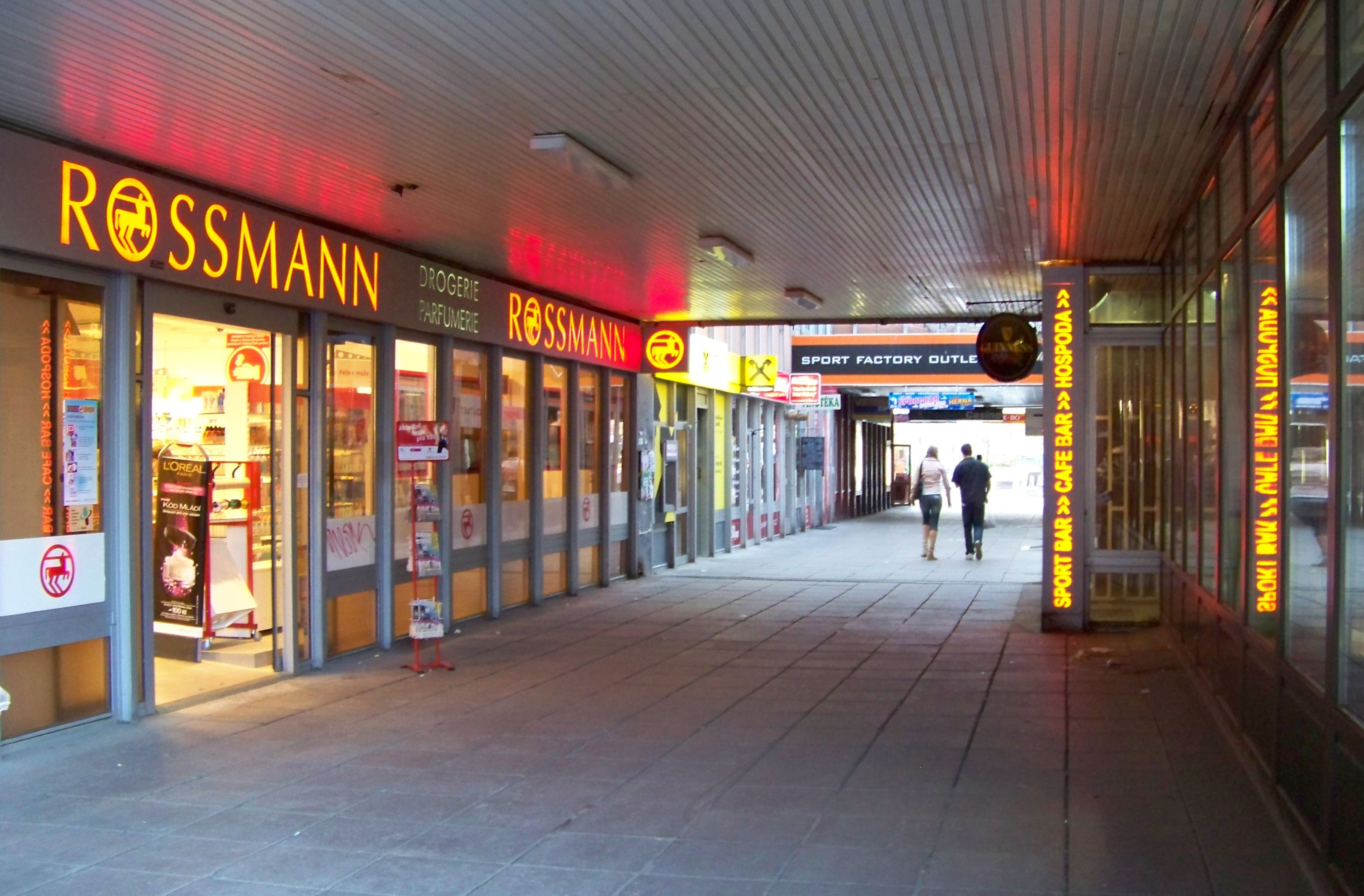 Háje, Prague, the Czech Republic. Háje Housing Estate, a shopping mall.